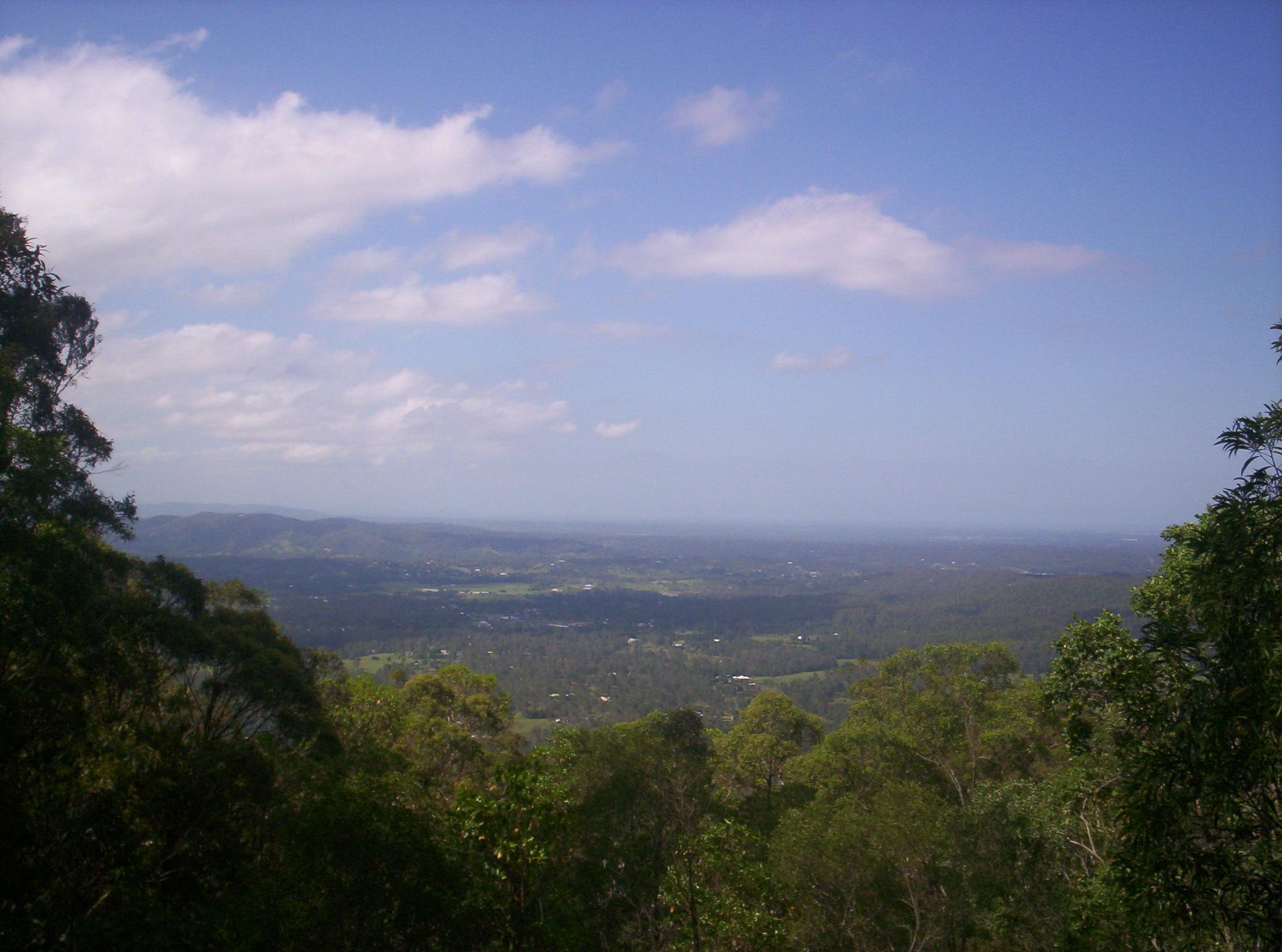 Looking towards the Glass House Mountains from Camp Mountain ( this photograph was taken by Figaro )